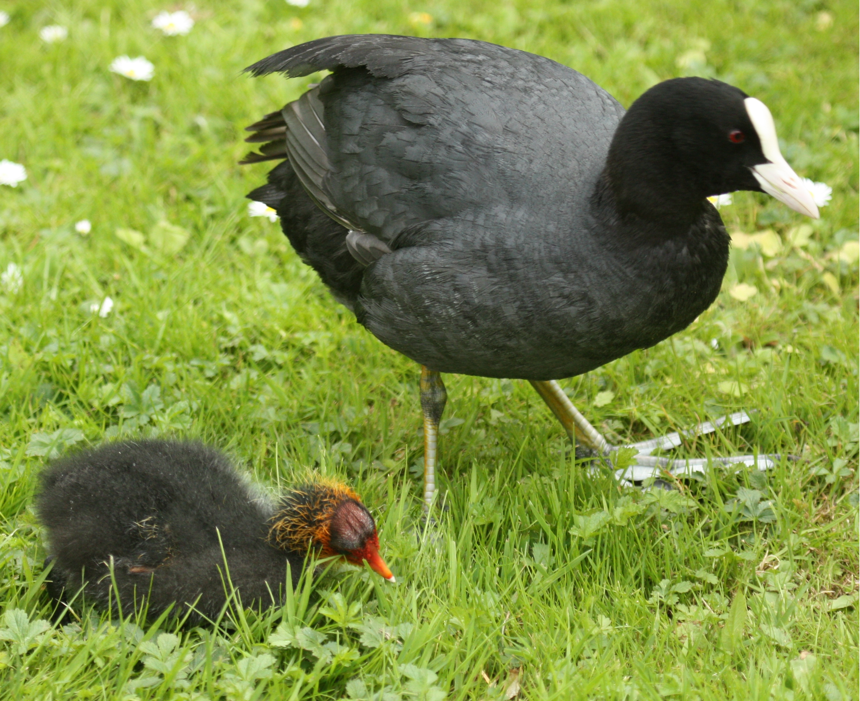 Copenhagen